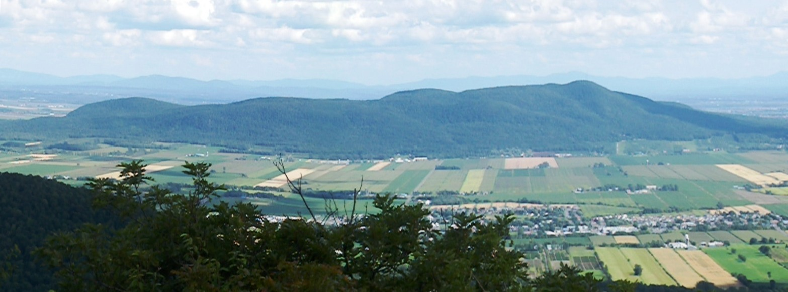 Mont Rougemont seen from Mont Saint-Hilaire